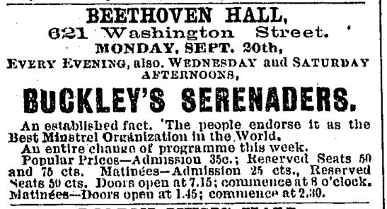 Advertisement for Beethoven Hall, Boston, Massachusetts, USA